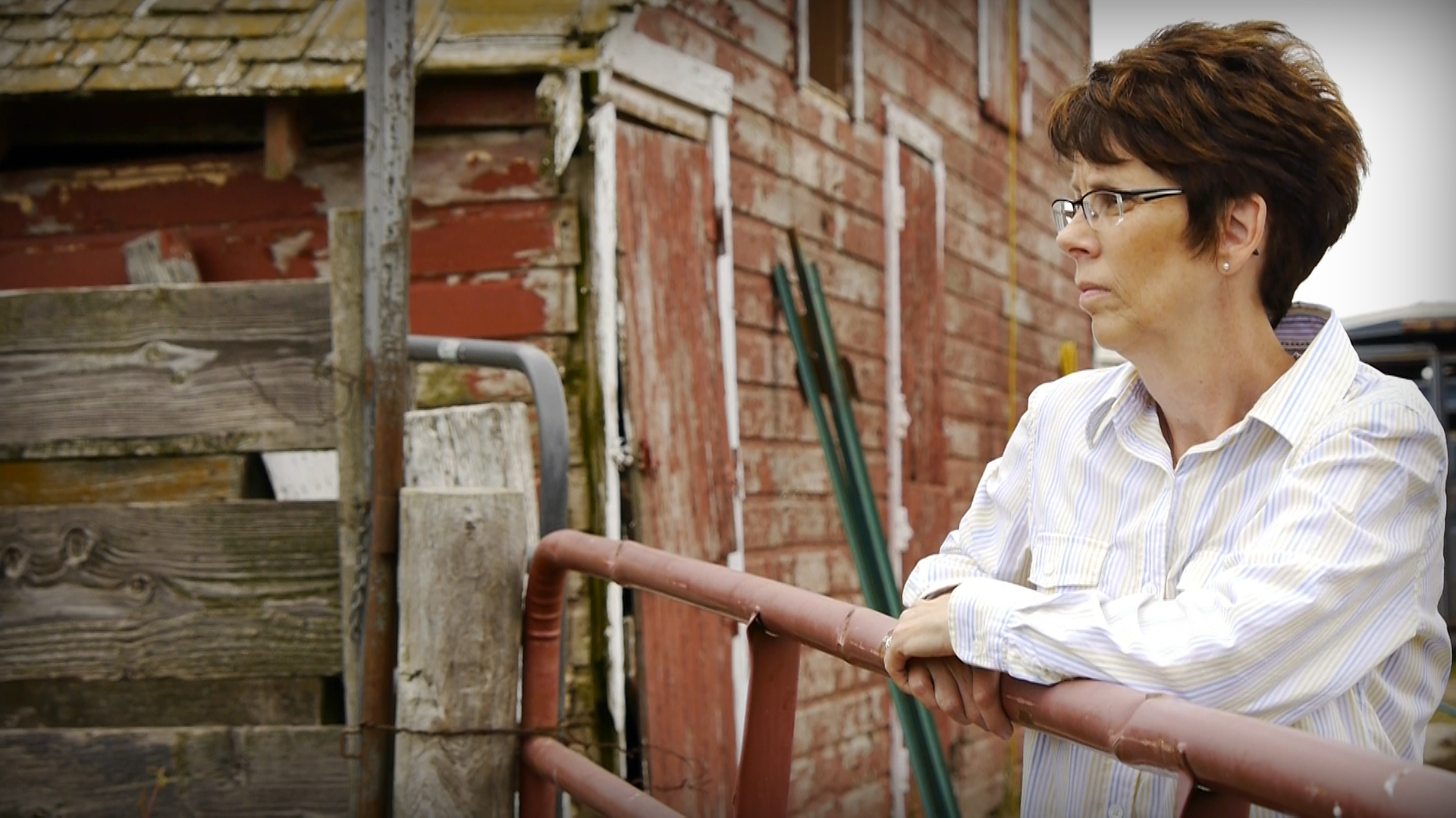 Annette Dubas, Candidate for Governor, on her family farm.